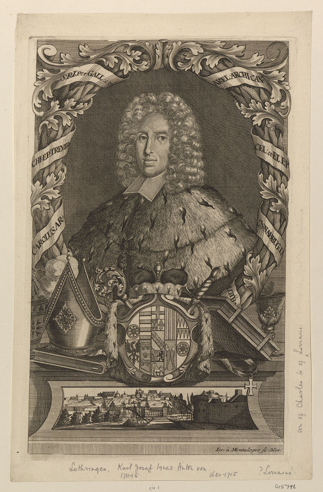 Painting of bishop of Olomouc Karel III. Lotrinský